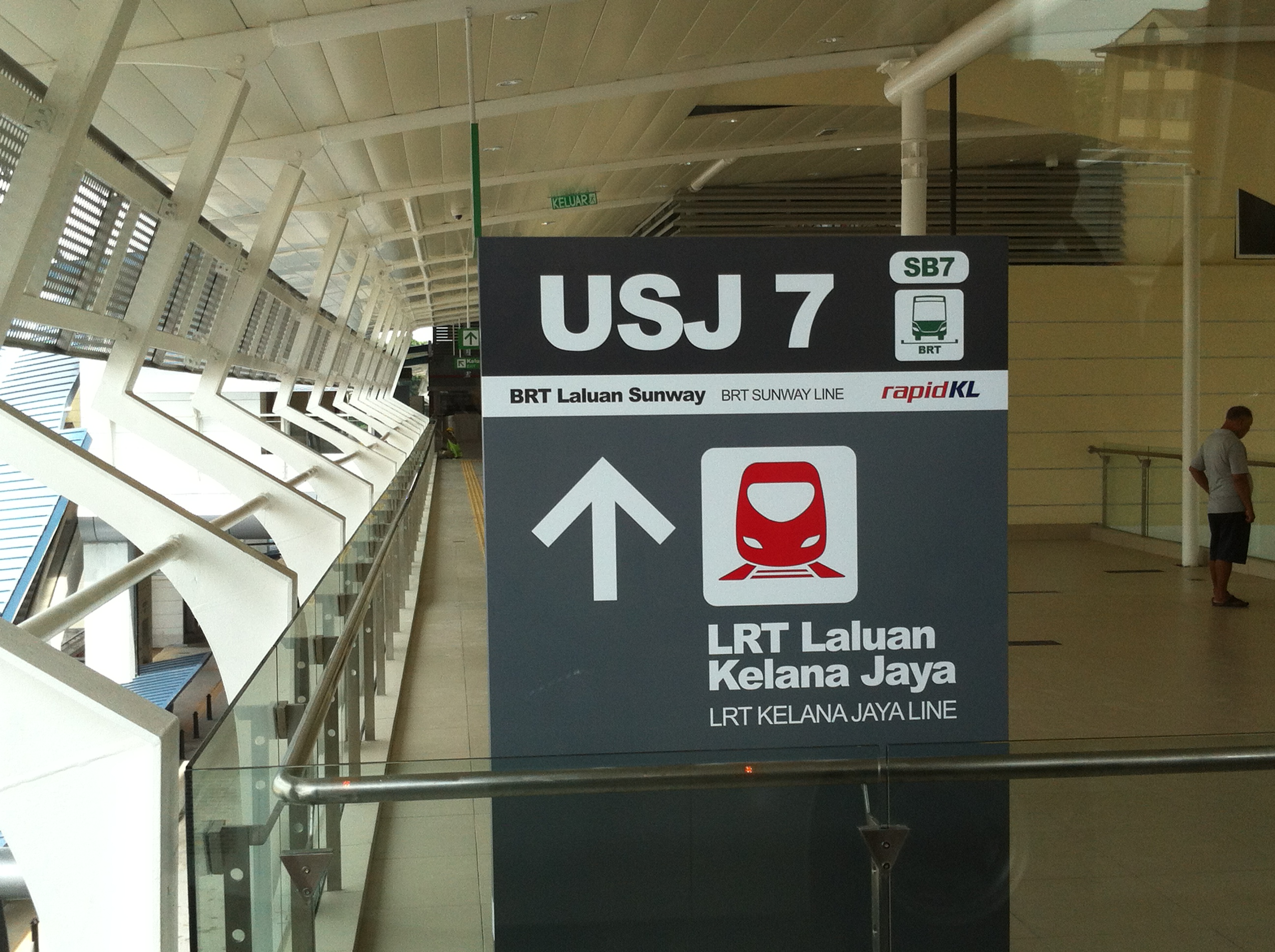 BRT USJ7 halt signage to LRT